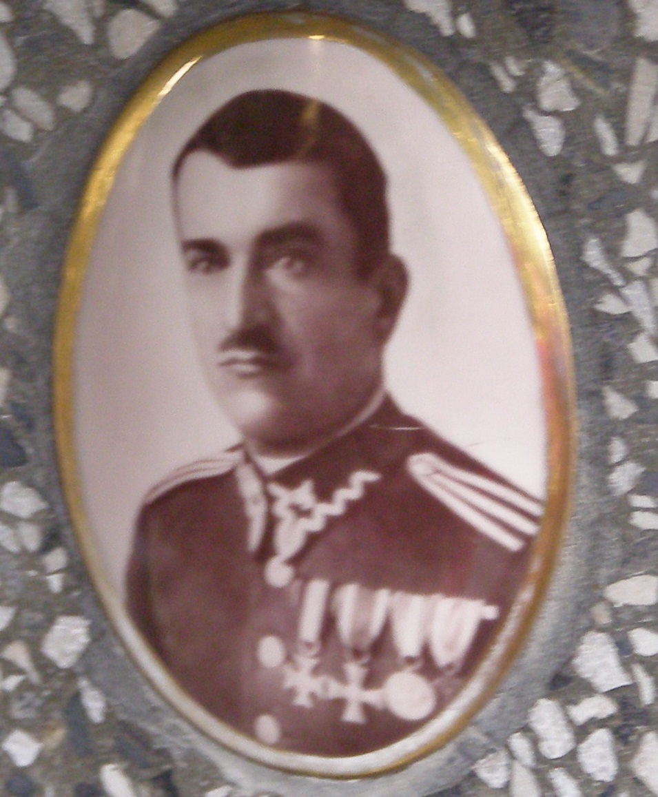 Grave photo of Jan Józefowski in a military uniform